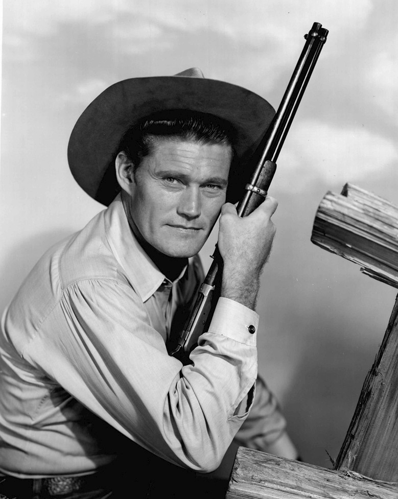 Photo of Chuck Connors as Lucas McCain from the television program The Rifleman.